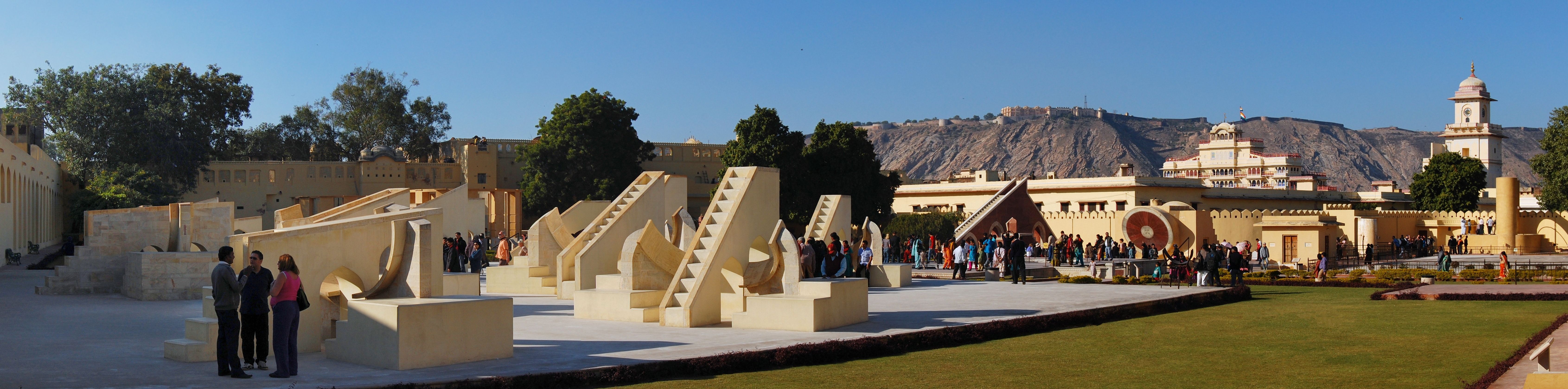 Panorama of Jantar Mantar, Jaipur, India.